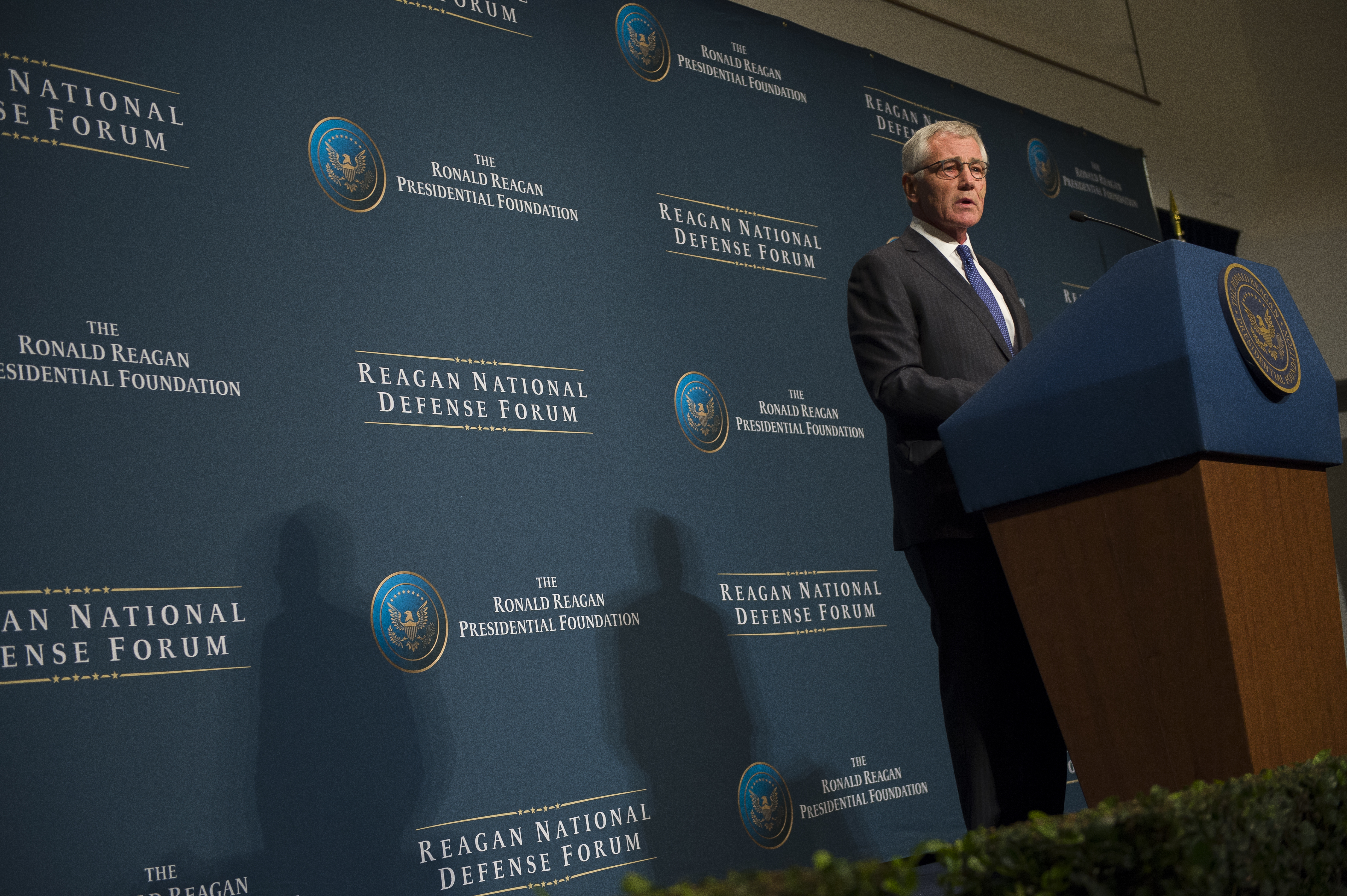 Secretary of Defense Chuck Hagel makes remarks during the Reagan National Defense Forum at The Ronald Reagan Presidential Library in Simi Valley, Calif., Nov. 15, 2014. Hagel is on a trip visiting troops across the continental United States. (DoD photo by Petty Officer 2nd Class Sean Hurt/Released)